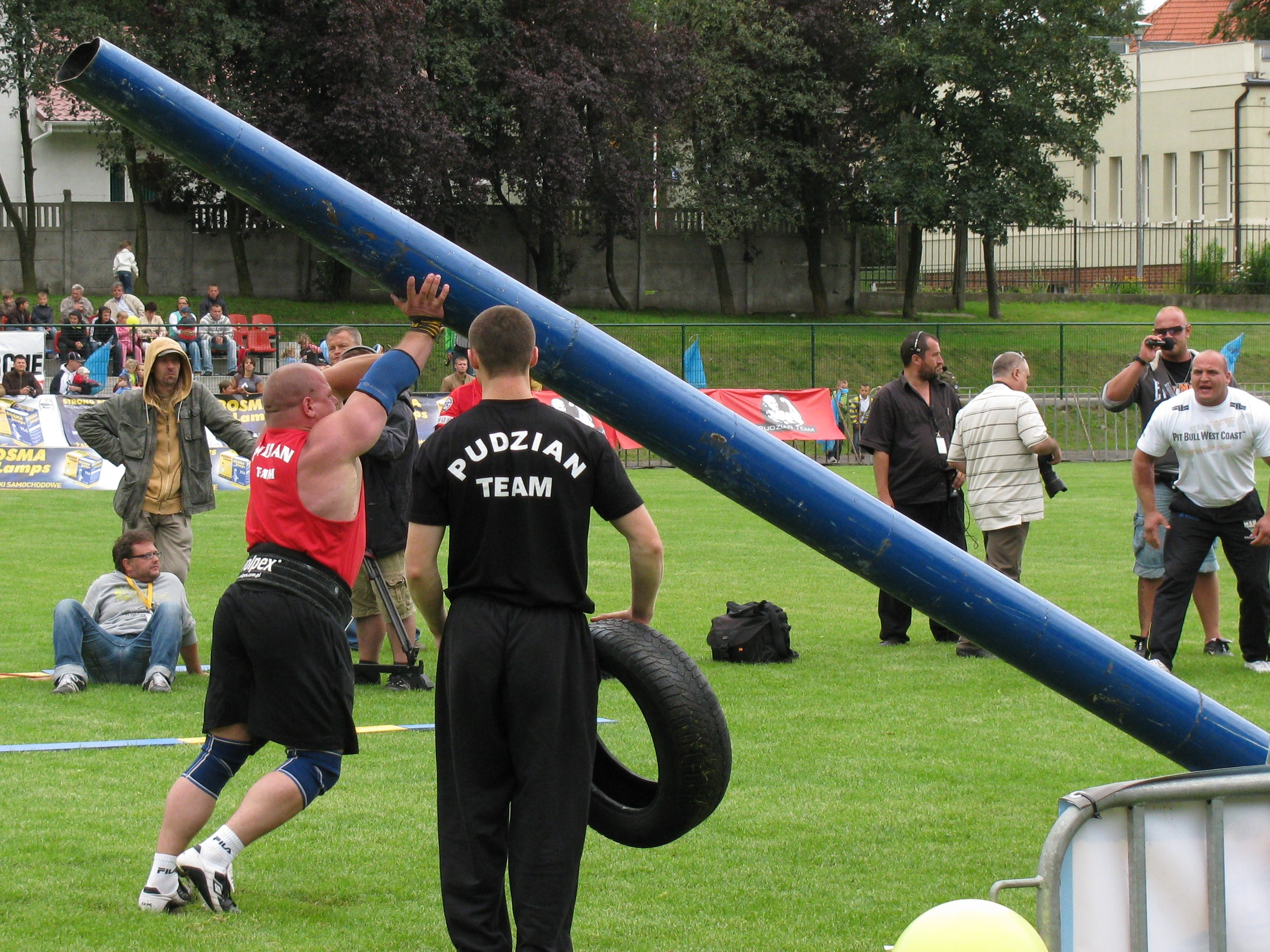 Strongmen event: Fingal's Fingers